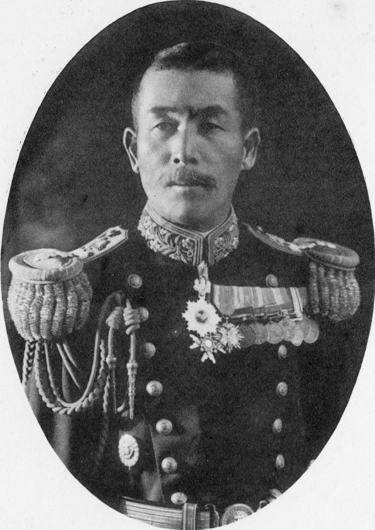 Vice Admiral Saburo Horiuchi